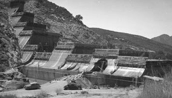 Picture of San Vicente Dam under construction